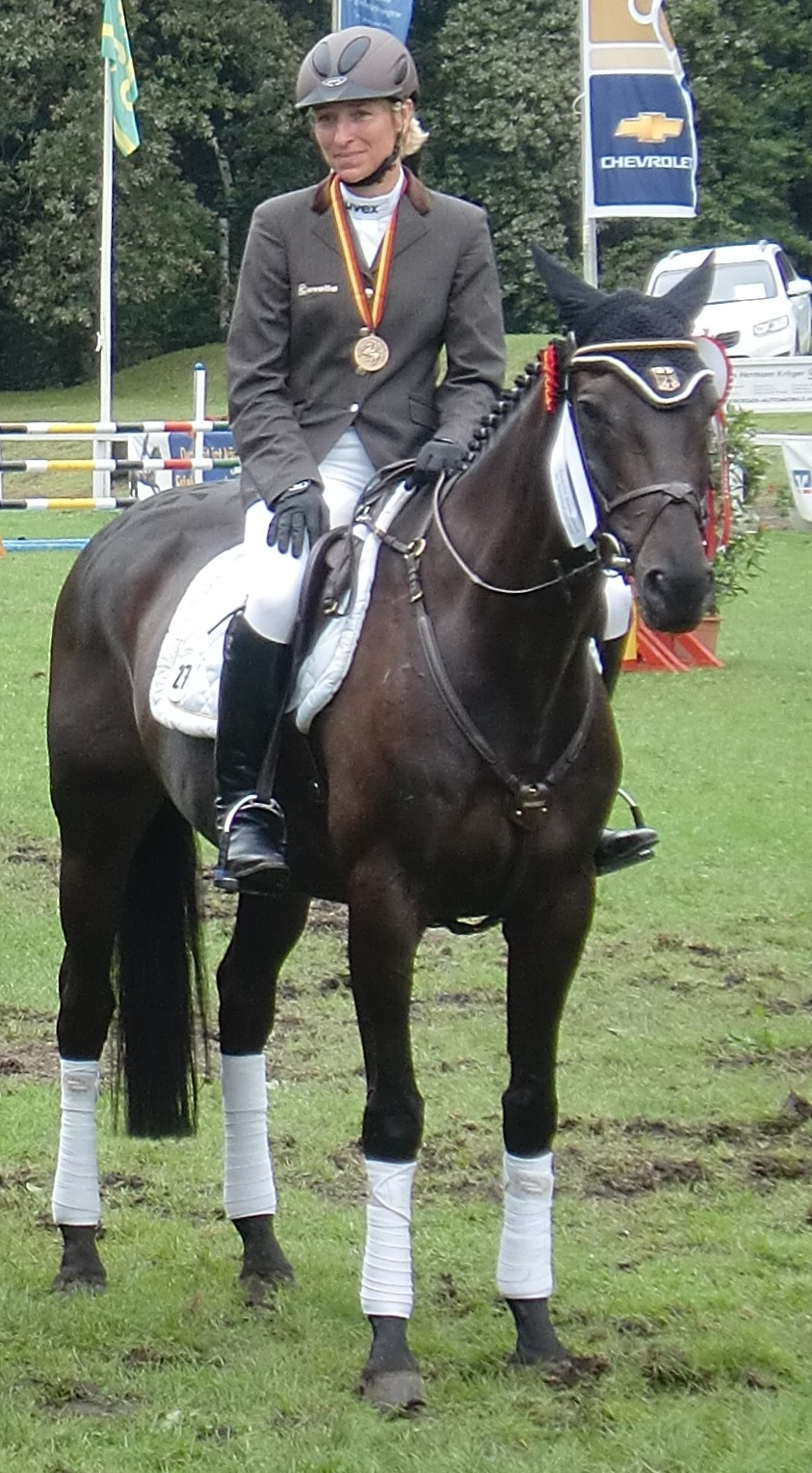 Ingrid Klimke and Butts Abraxxas, presentation ceremony of the German Eventing Championships 2010, CIC 3*-W Schenefeld 2010